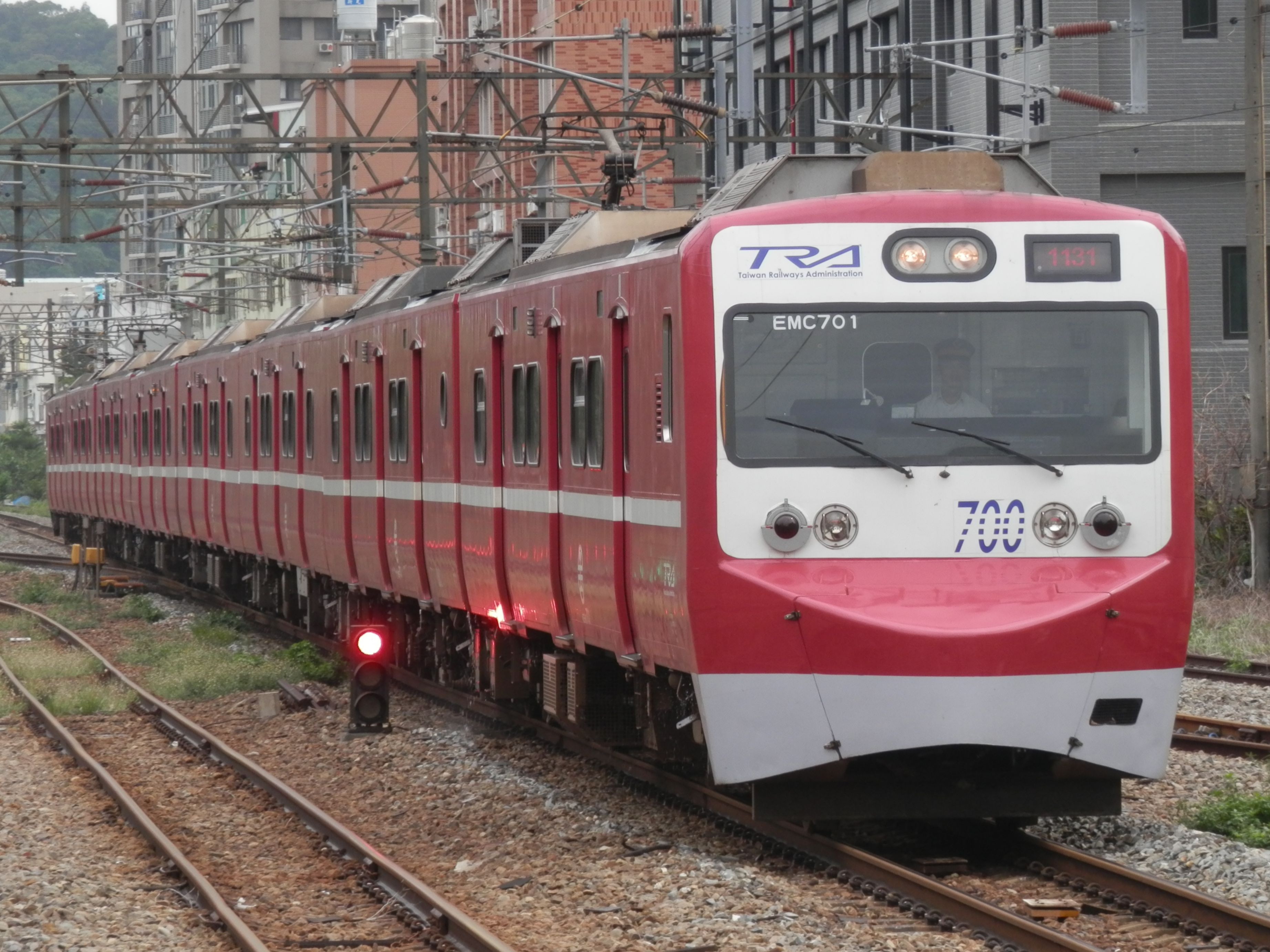 TRA Type EMU700(Keikyu Color) at Zhubei Station